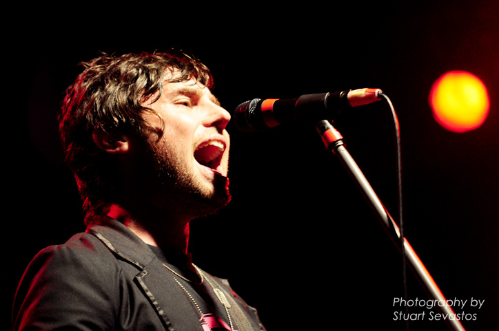 End of Fashion @ Fly By Night Club (20/3/2009)